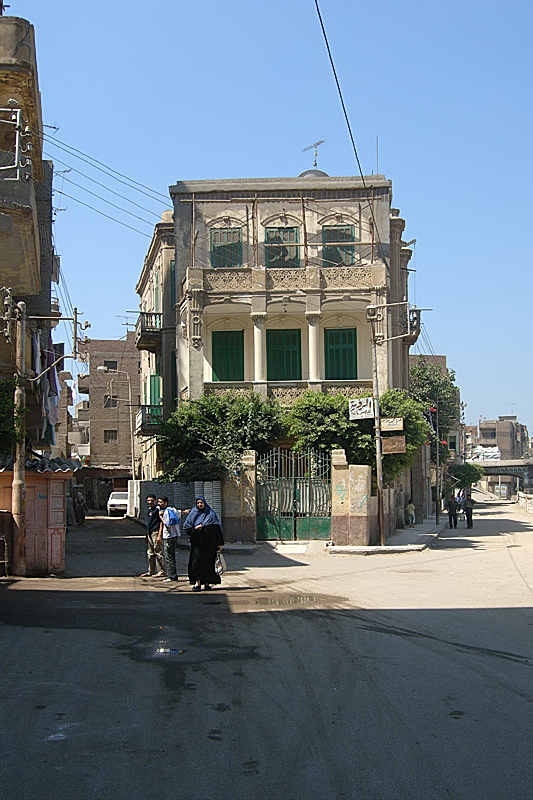 Residential building in Samannud, Egypt